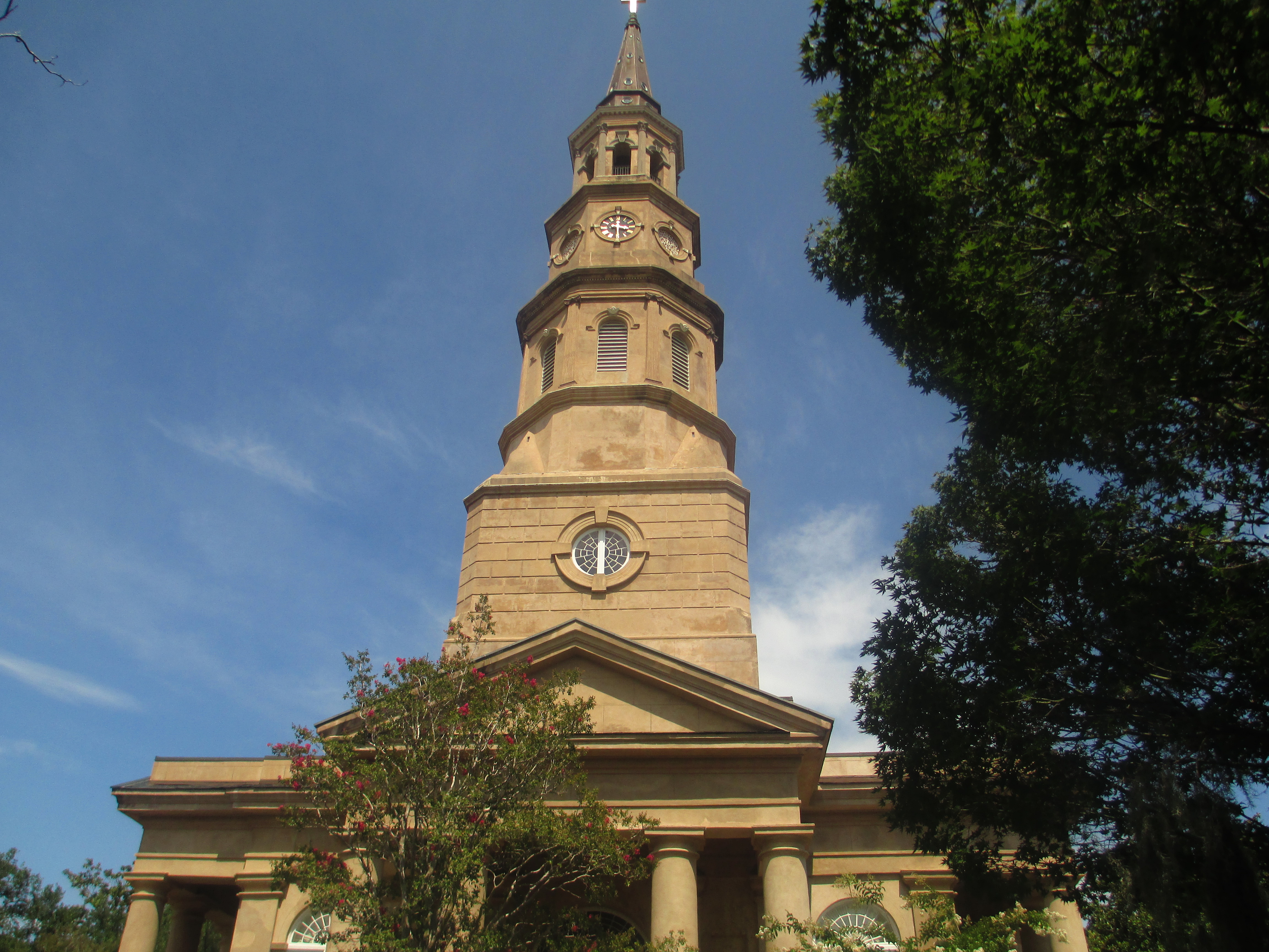 I took photo with Canon camera at St. Philip's Episcopal Church in Charleston, SC.